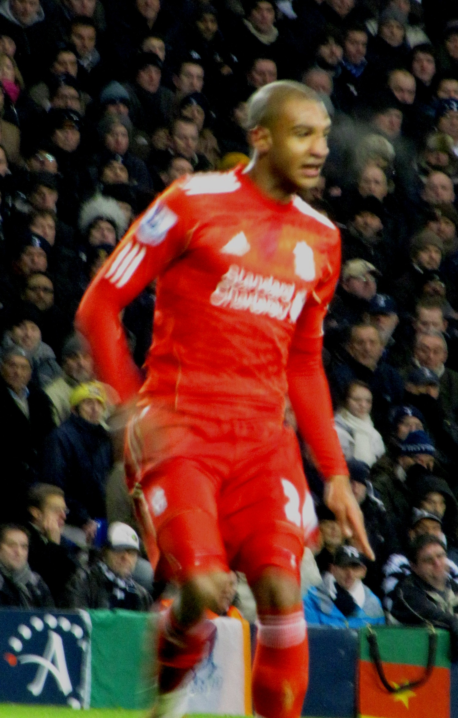 D N'Gog for Liverpool fc